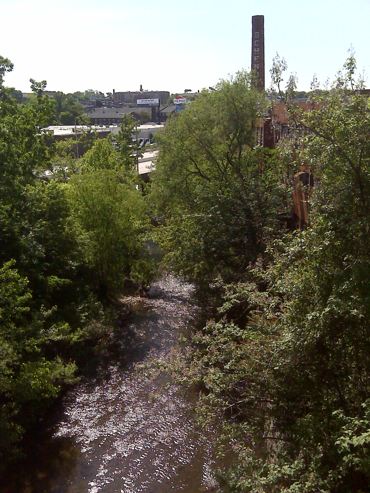 The Jones Falls, looking south from the 41st Street bridge across the valley.